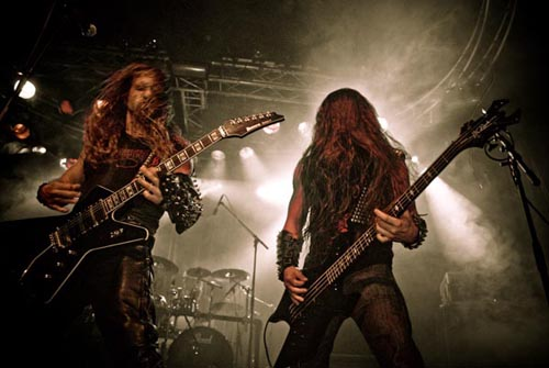 Destroyer 666, live at Hole In The Sky, Bergen Metal Fest 2007